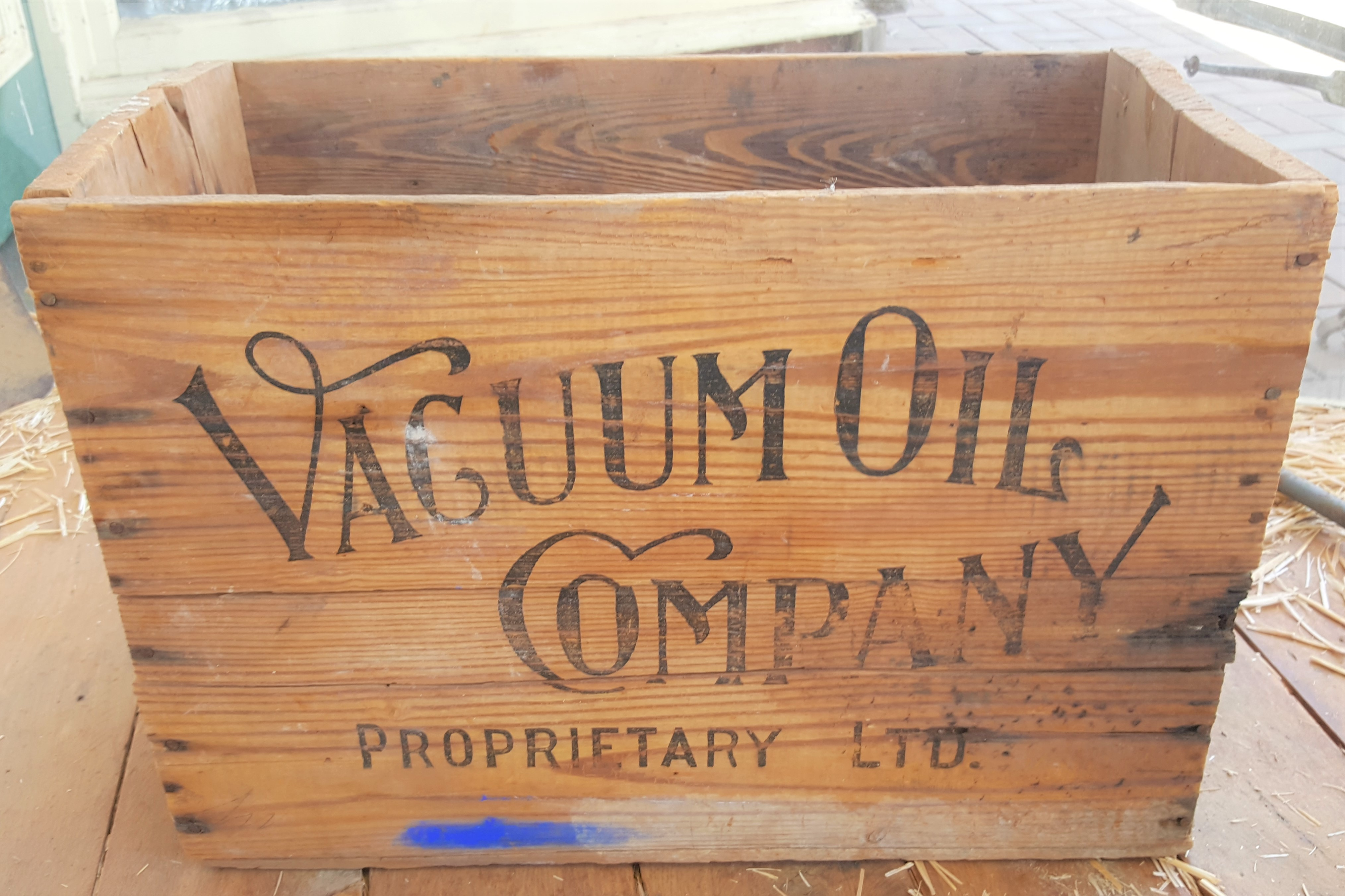 This is a wooden case that originally held two tin-plate drums of 4 imperial gallons or 5 US gallons each. This form of packaging was used for what was known as 'case oil' and used for the seabourne trade in refined petroleum products, using ordinary cargo ships, until this practice was superseded by bulk tankers in the first few decades of the 20th-Century. There were a number of shipping disasters caused by drums leaking in the holds of cargo ships and the vapours subsequently igniting. This wooden case was on display in the window of Barnesstore Emporium and Cafe in Albury St, Murrumburrah, NSW, Australia, and was photographed with the permission of the cafe staff.